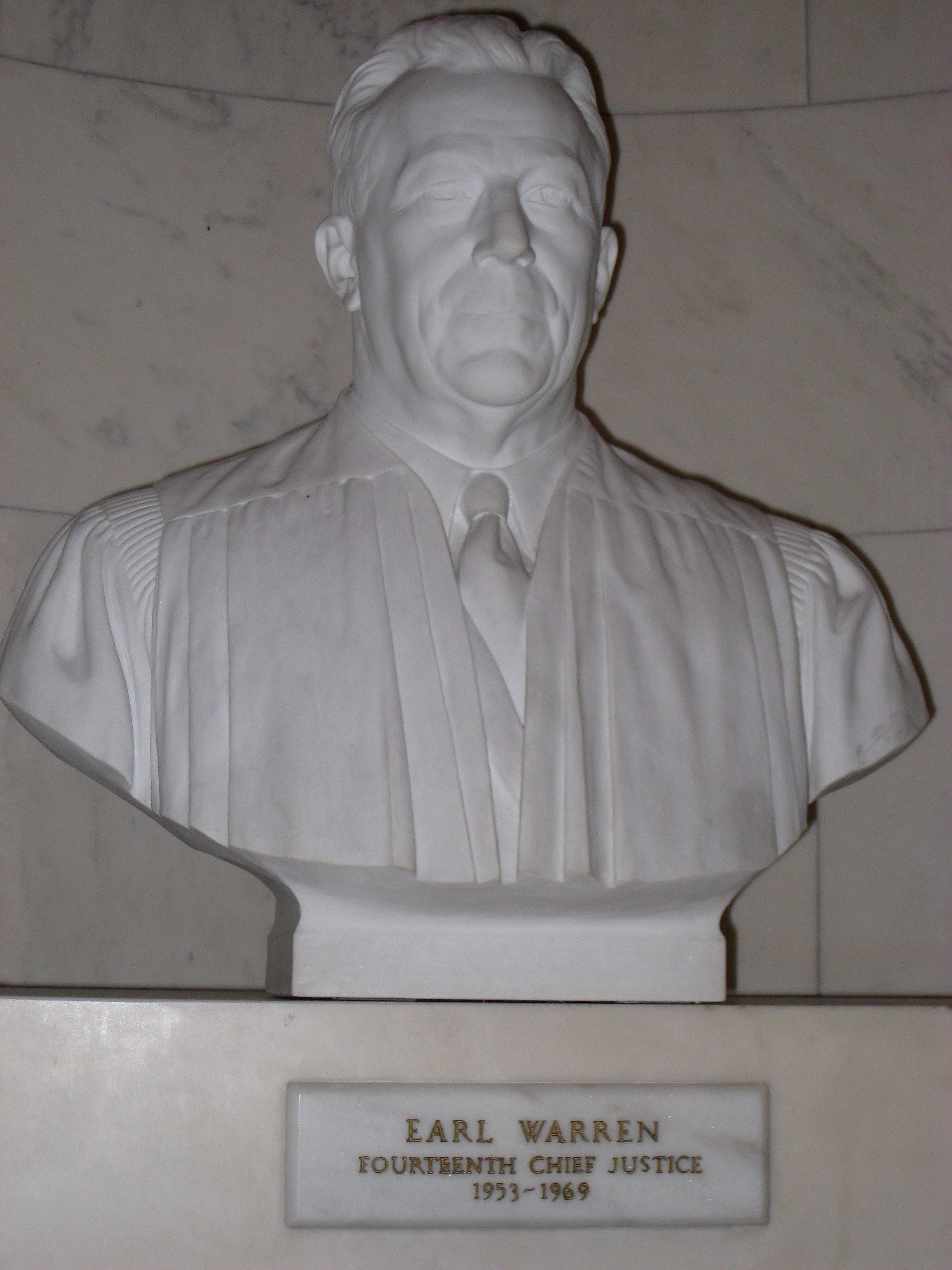 Earl Warren bust, US Supreme Court, Washington, DC, USA. Sculptor: Walker Kirtland Hancock (1901 - 1998).